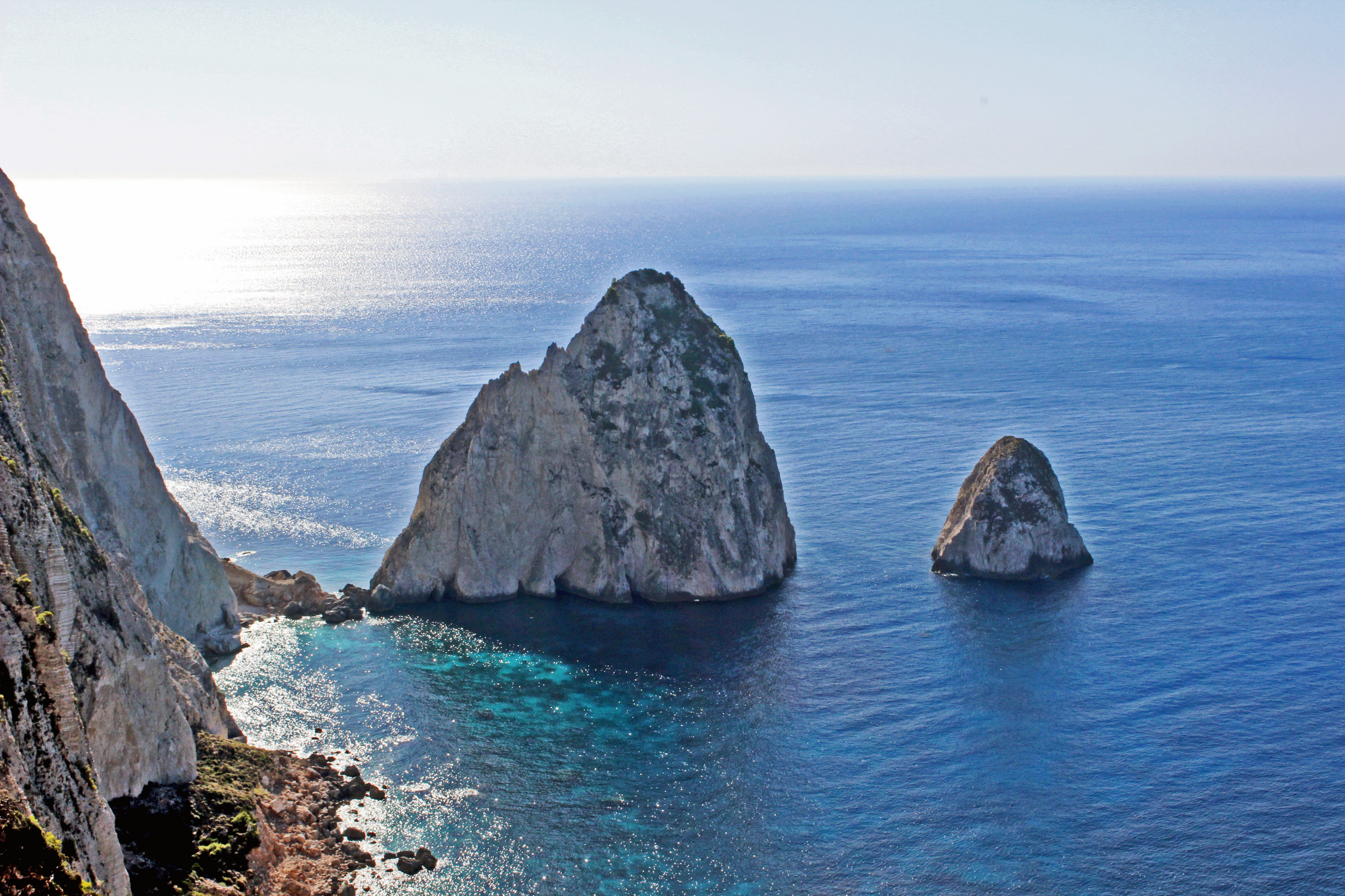 Mizithres Rocks on the southwestern coastline of Zakynthos Island, Greece, near the village of Keri